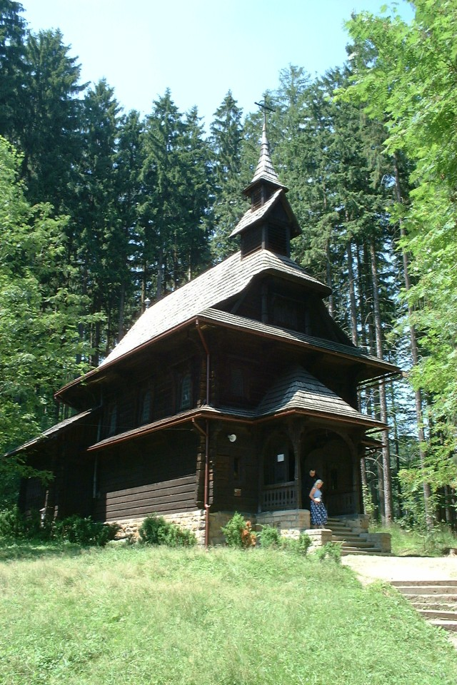 Poland, Wisla-Czarne - wooden church nearby President's Palace.